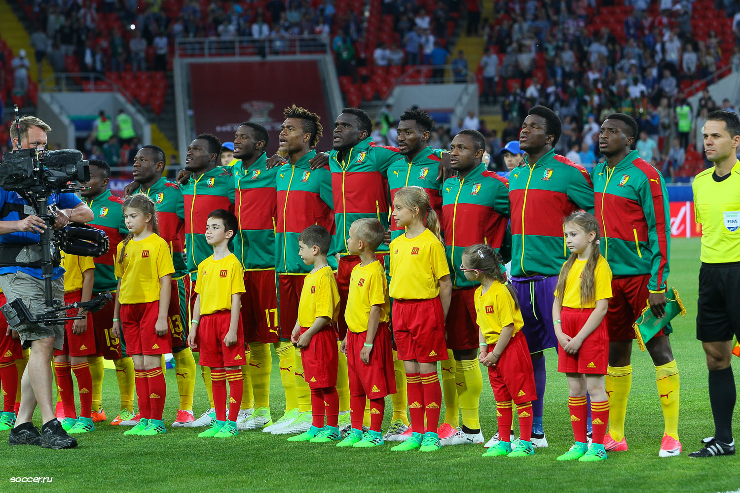 Cameroon vs Chile (0-2). FIFA Confederations Cup 2017